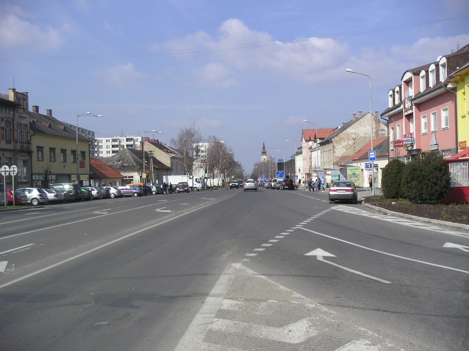 Main Street in Malacky, Slovakia